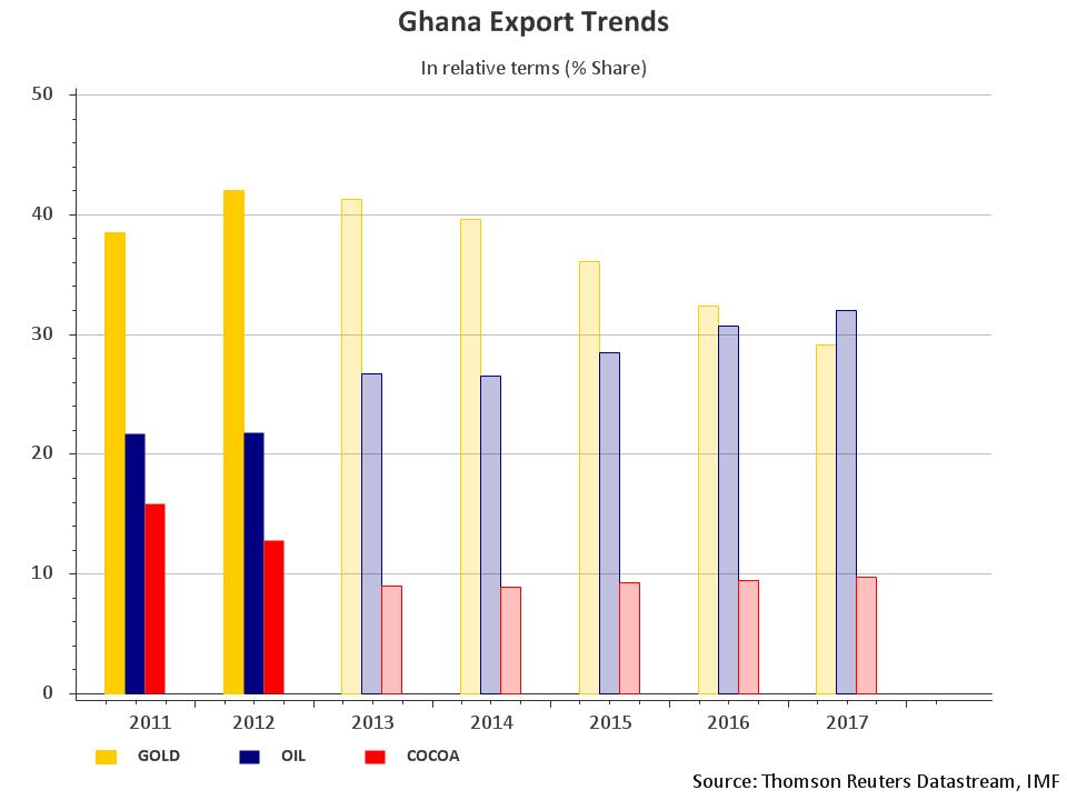 Ghana economic export trends chart.